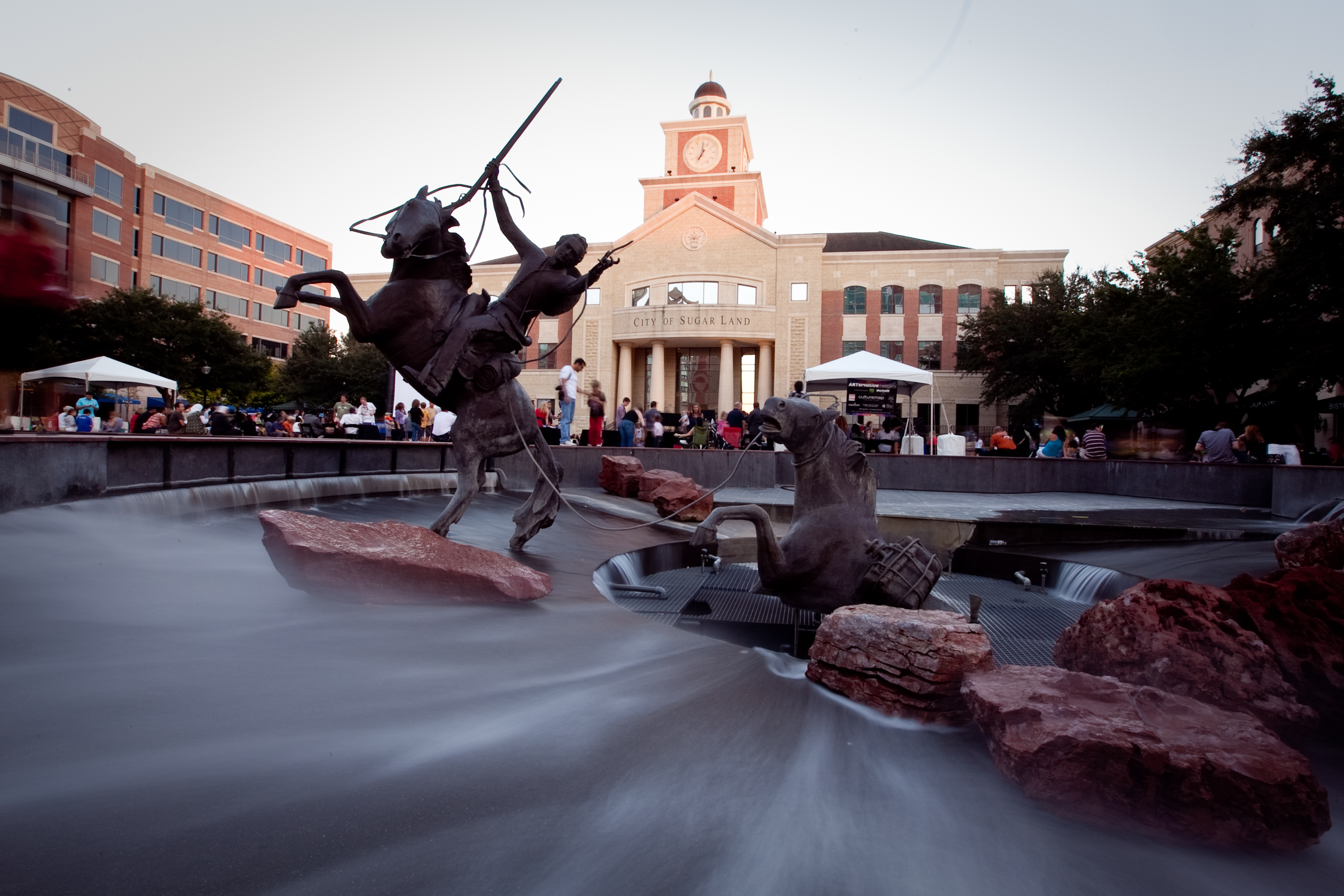 Sugarland Town Square